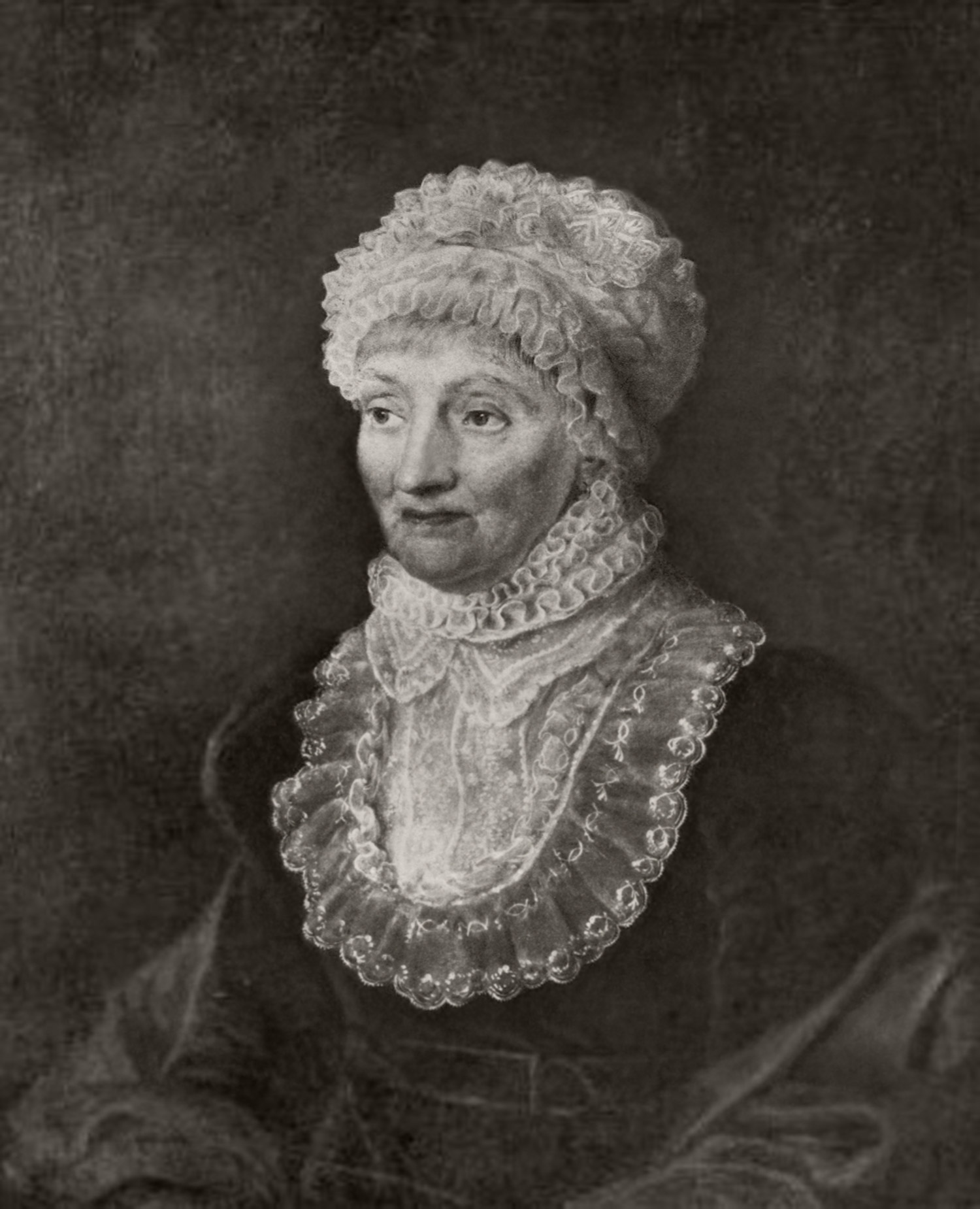 Picture of a portrait of Caroline Herschel, the noted astronomer